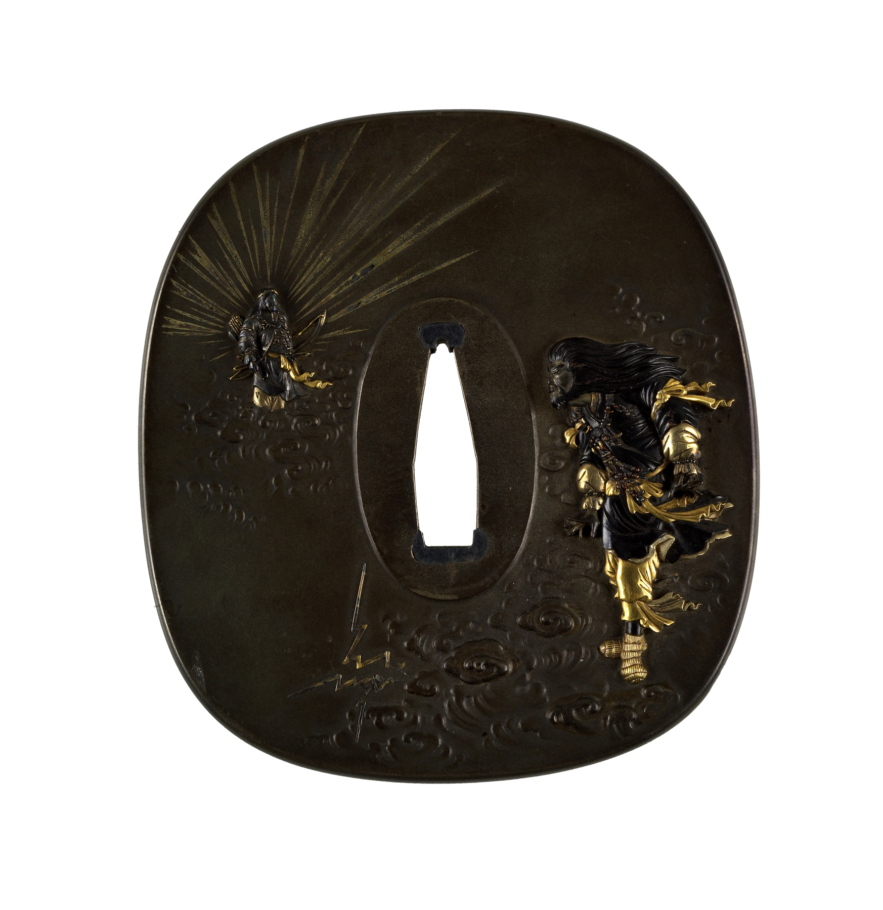 This tsuba shows the mythical ancestor of the Japanese Imperial lineage Amaterasu and her brother Susano-ô. Amaterasu is known as the Sun Goddess and there are rays of light in gold radiating from behind her. Susano-ô is shown in opposition to his sister on a storm cloud. There are bolts of lightning at the lower left edge of the cloud on which he stands. Further lightning and clouds are on the reverse of the tsuba. This piece was made during the Meiji period and was probably intended for export.